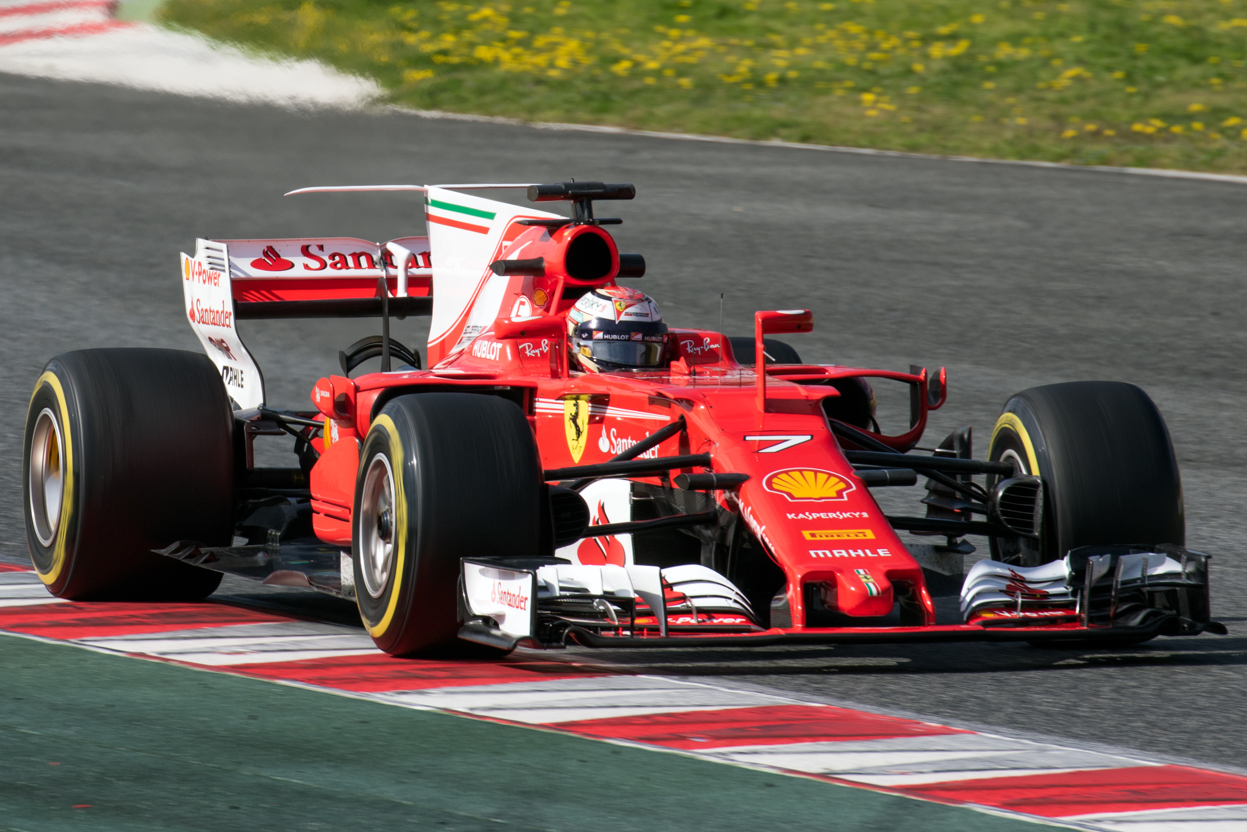 Formula One 2017 Catalonia test (27 February-2 March): Kimi Räikkönen (Ferrari)